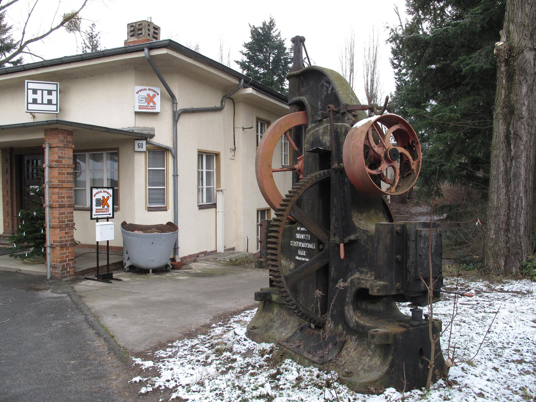 Listed second administrative building, built in 1926/27 by Ernst Eichelkraut Nachf., and former machine for the shipbuilding at the Teltow-Werft (shipyard). The Teltow-Werft in Berlin-Zehlendorf has emerged in 1924 from the building yard and its harbour, which were opened in 1906 especially for the maintenance of the tow-locomotives and for the supply of the Teltowkanal (canal). The shipyard was closed in 1962. The harbour and most of the buildings, mainly built according to plans by the engineering office Havestadt & Contag, are listed today